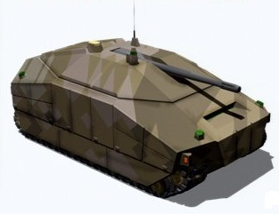 DARPA image illustrating GCV